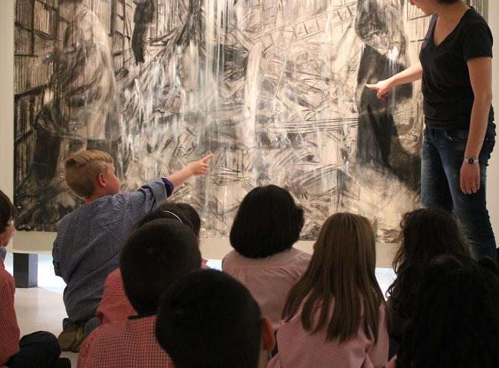 Can Framis Visitas taller